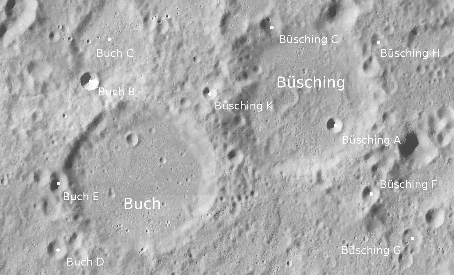 Craters Buch and Büsching (detail of LRO - WAC global moon mosaic; Mercator projection)